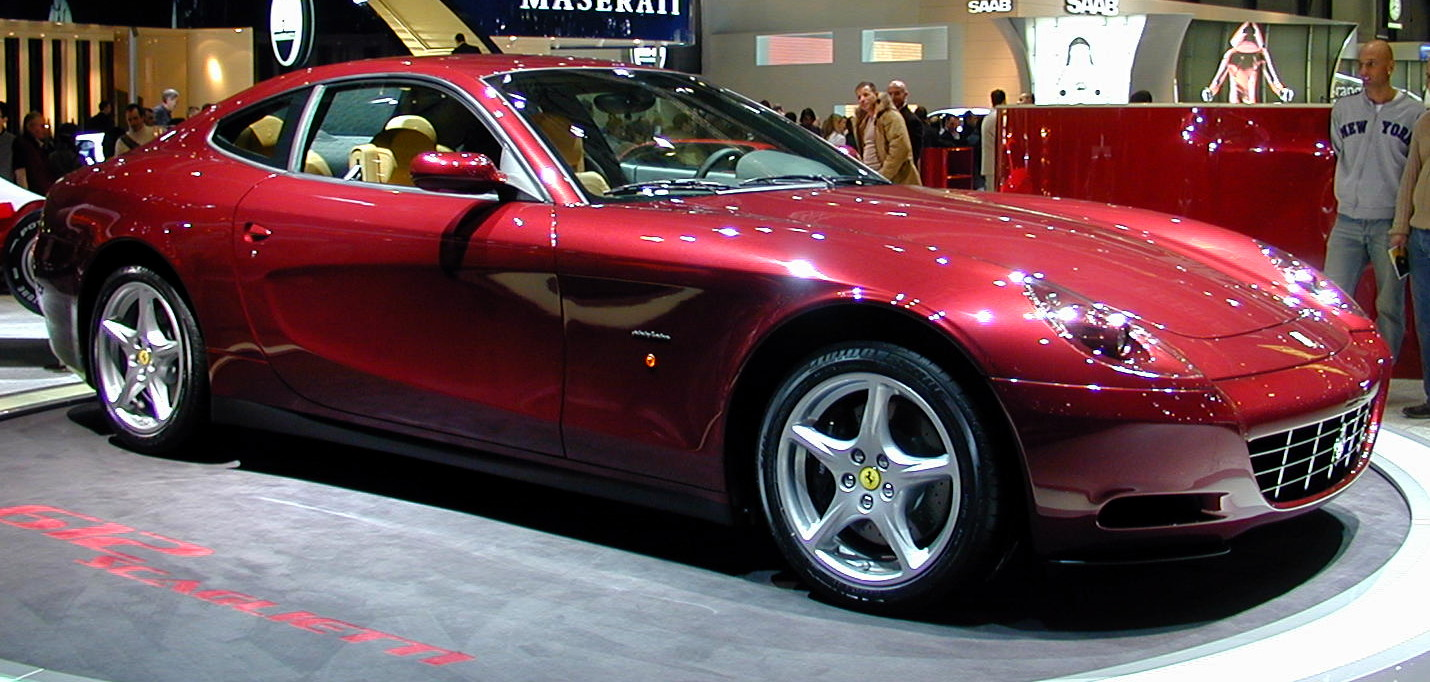 Salon de Genève 2004 SAG2004 215 Ferrari 612 Photographie prise par Utilisateur:Semnoz le 12 mars 2004, et placée sous licence GFDL. Taken by wiki-french-user Semnoz in March 2004 and placed with GFDL licence. Utilisateur:Semnoz 12 mars 2004